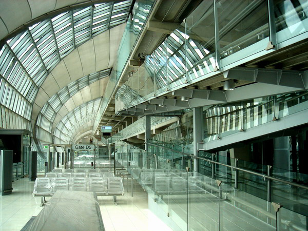 Suvarnabhumi Airport inside My friend is the owner of this photo.